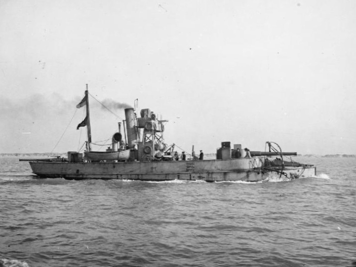 Photograph of British Ant class iron gunboat HMS Bustard.